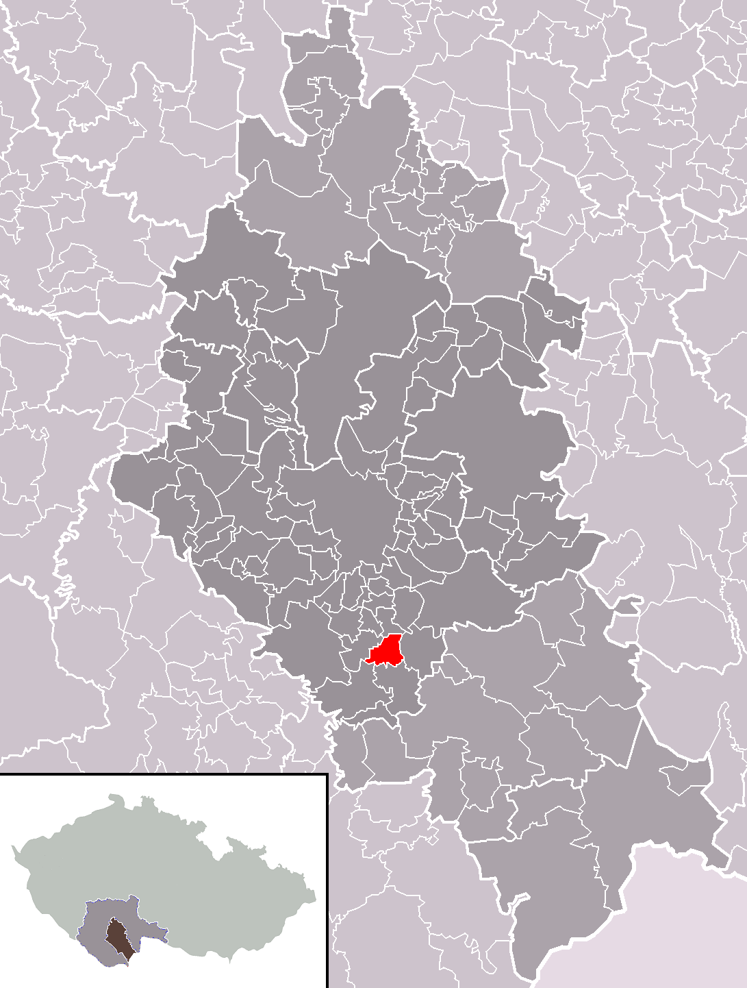 Location of Střížov municipality within České Budějovice District and administrative area of České Budějovice as a Municipality with Extended Competence.